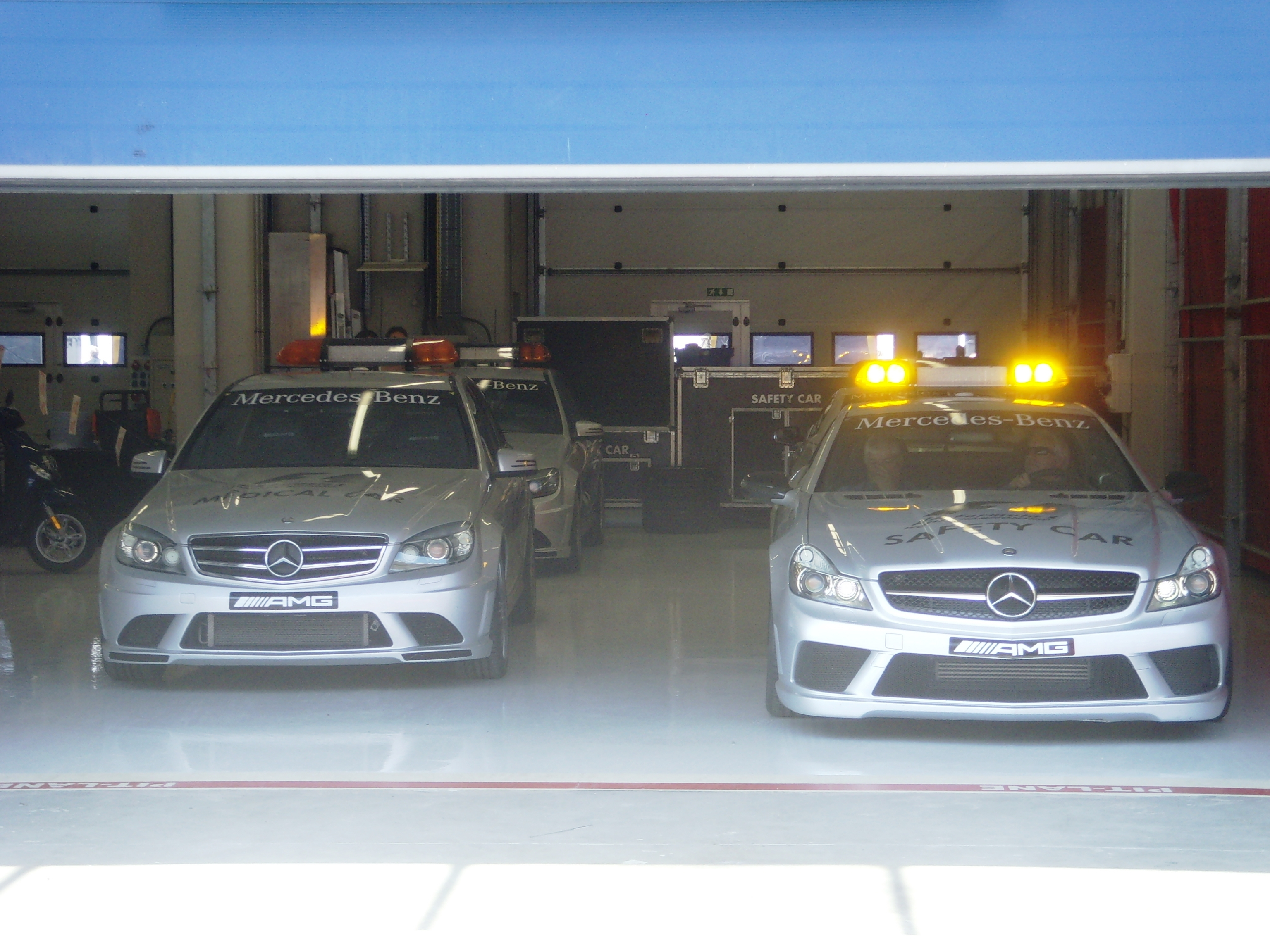 Safety car and medical car in garage on Istanbul Park during 2009 Turkish Grand Prix weekend.